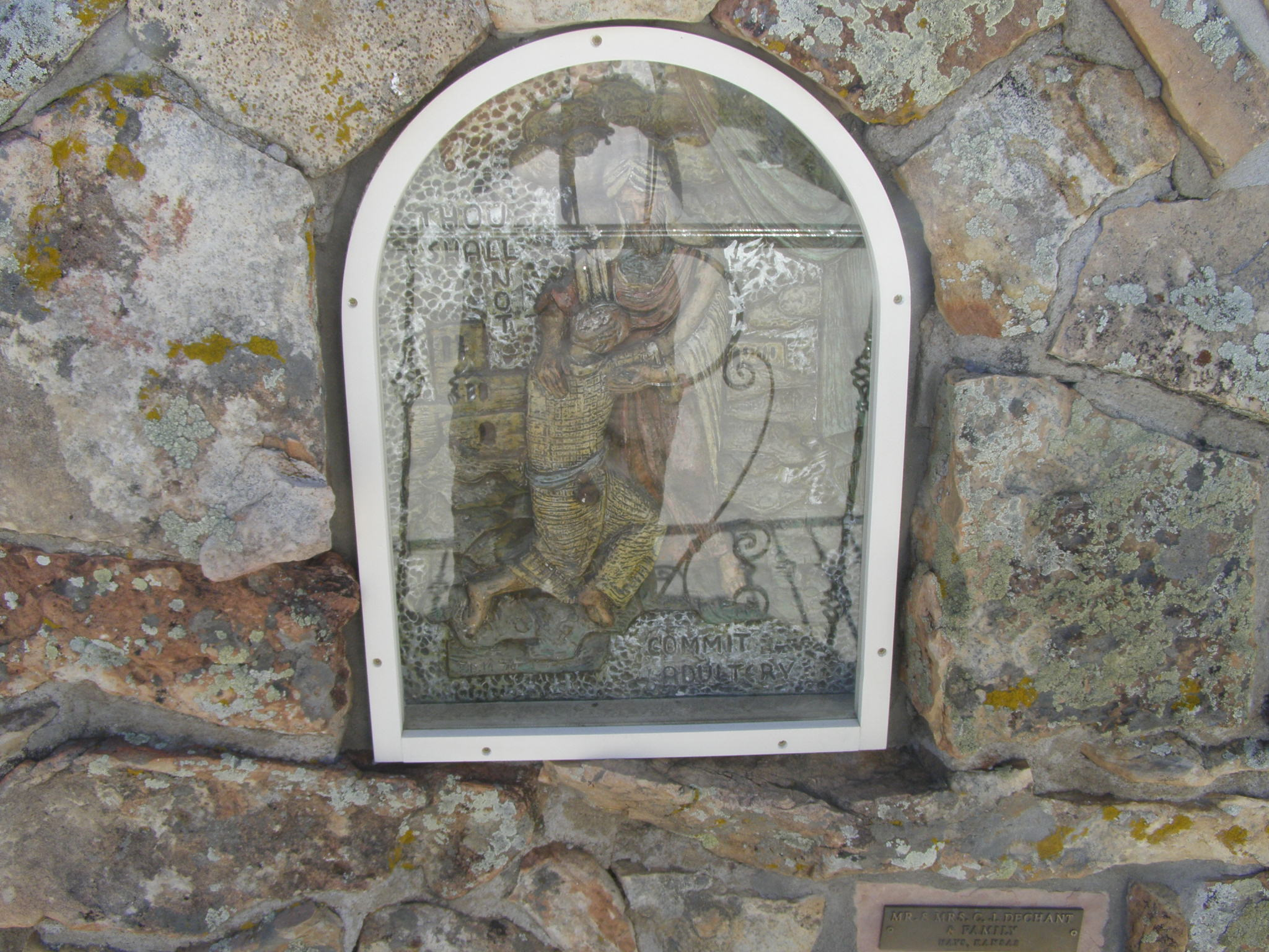 6th Commandment -Do not Commit adultery